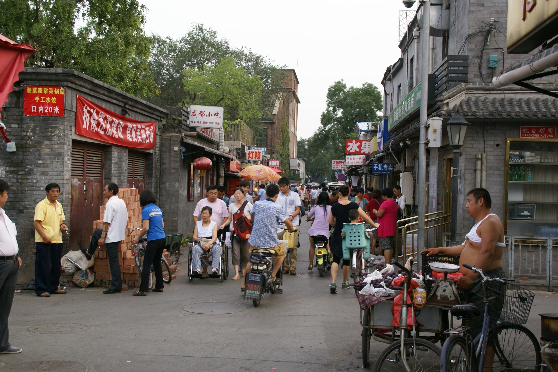 Mianhua Hutong - Beijing, 17.8.2014